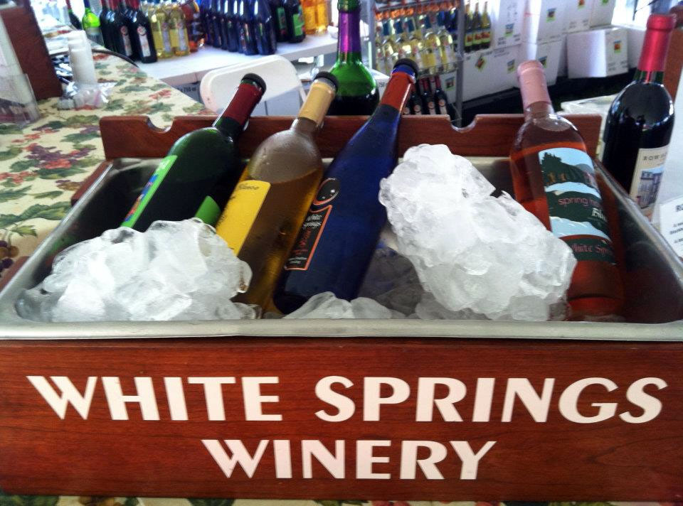 One of the wineries in the popular Finger Lakes wine tent.